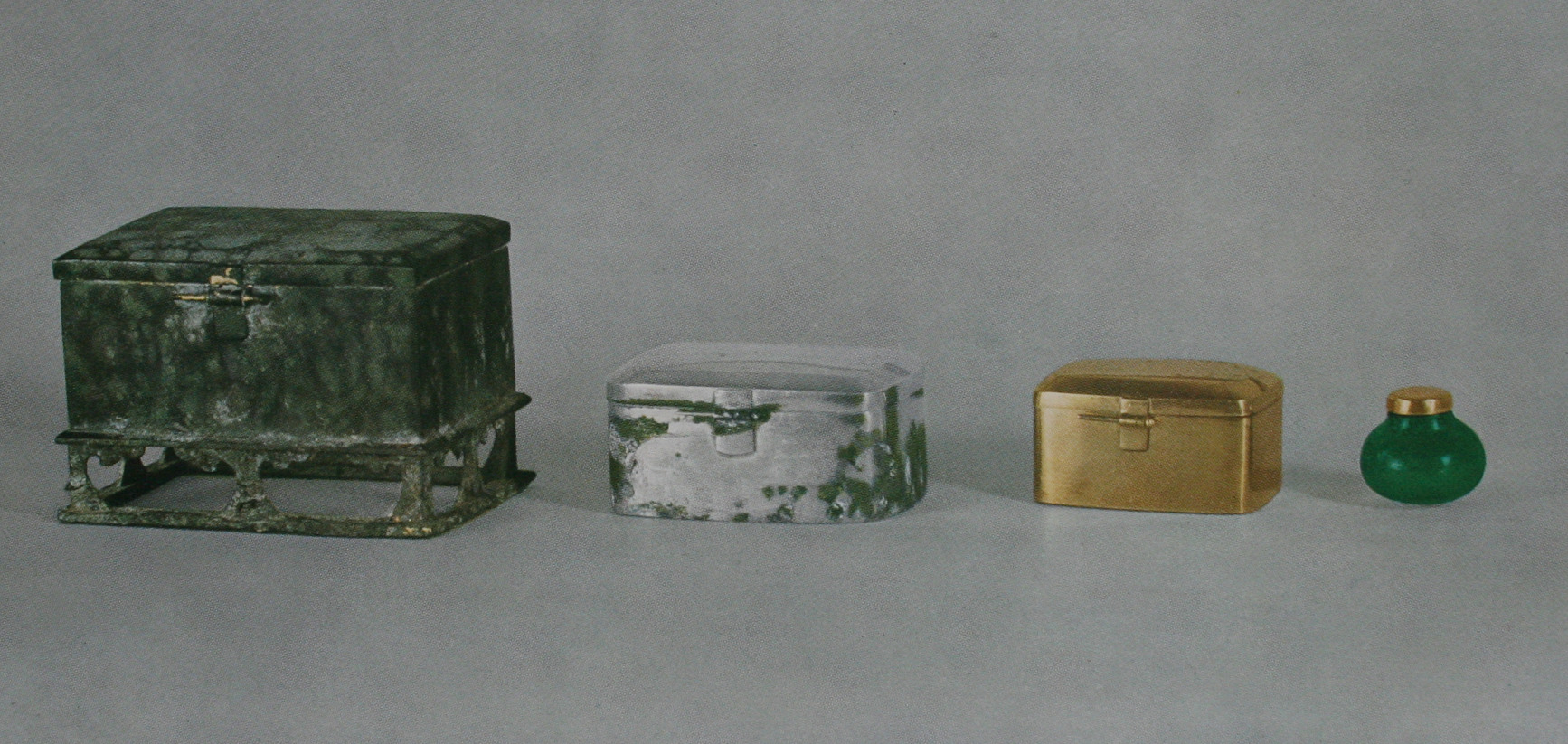 Reliquary set consisting of a spherical vase (height: 3 cm (1.2 in), aperture: 1.7 cm (0.67 in)) with gold lid enshrining bones placed in a gold box (6 × 4.2 cm (2.4 × 1.7 in)) surrounded by a silver box (7.9 × 5.8 cm (3.1 × 2.3 in)) surrounded by a gilt bronze box (10.6 × 7.9 cm (4.2 × 3.1 in)). Nara period Japan , Shiga Otsu Sufukujipagoda of Sūfuku-ji Ōtsu, Shiga,Japan